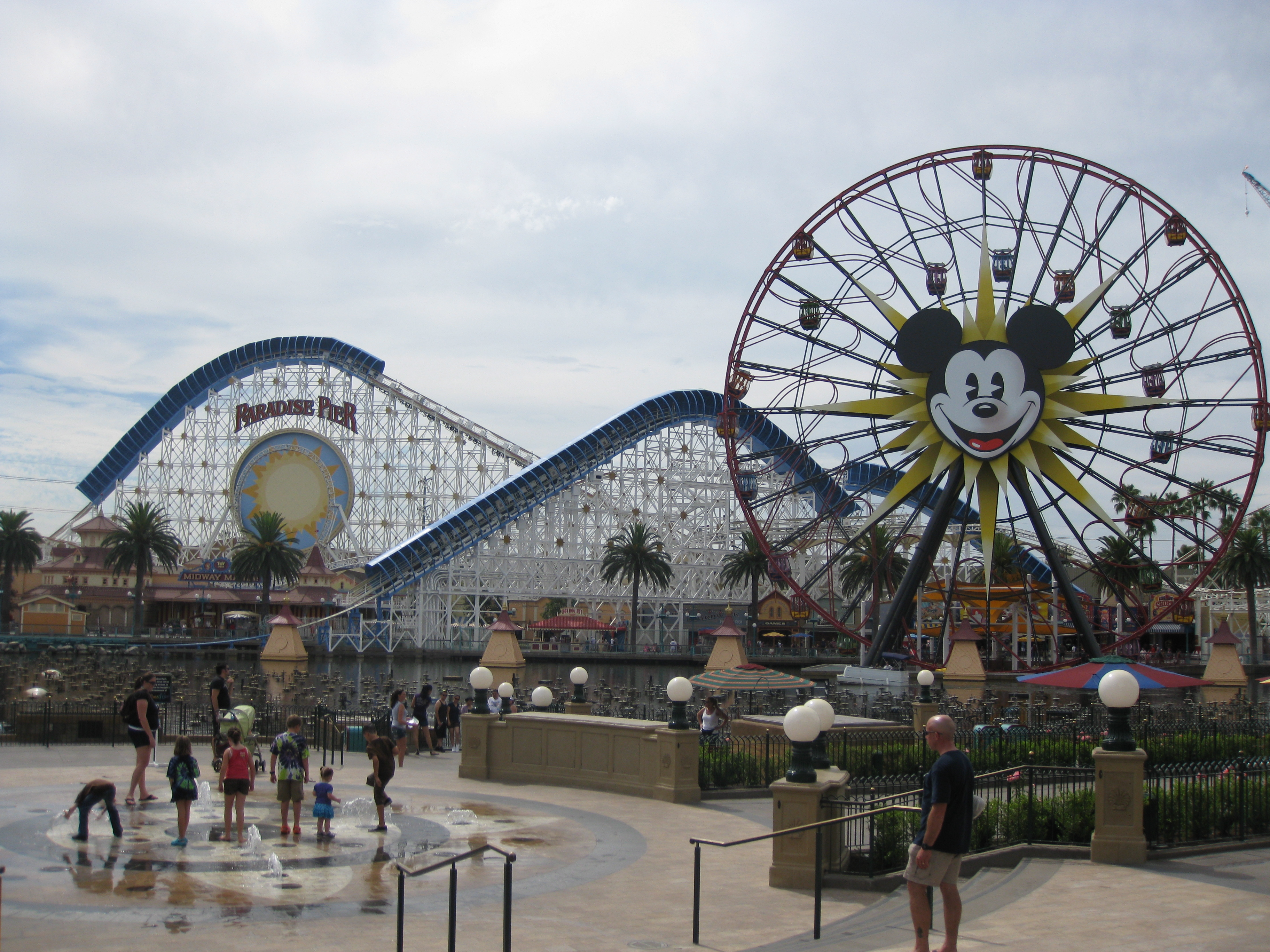 Paradise Pier at Disney's California Adventure, Disneyland Resort